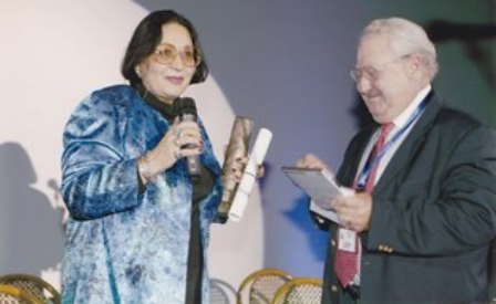 Темине Туаевой вручают Гран-При на Фестивале Российского кино в г.Онфлер